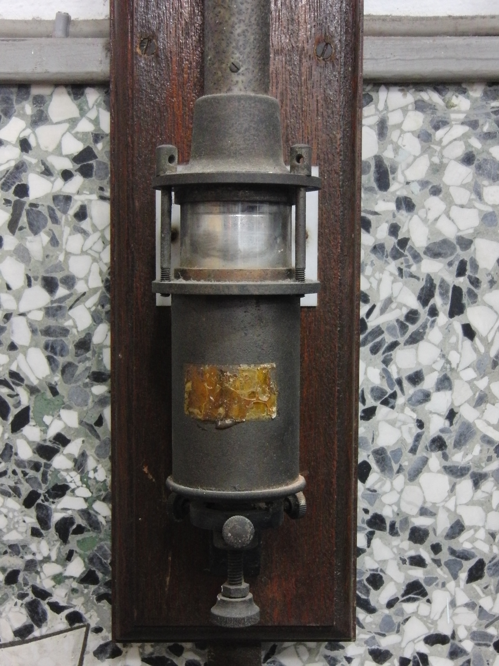 Mercury Barometer